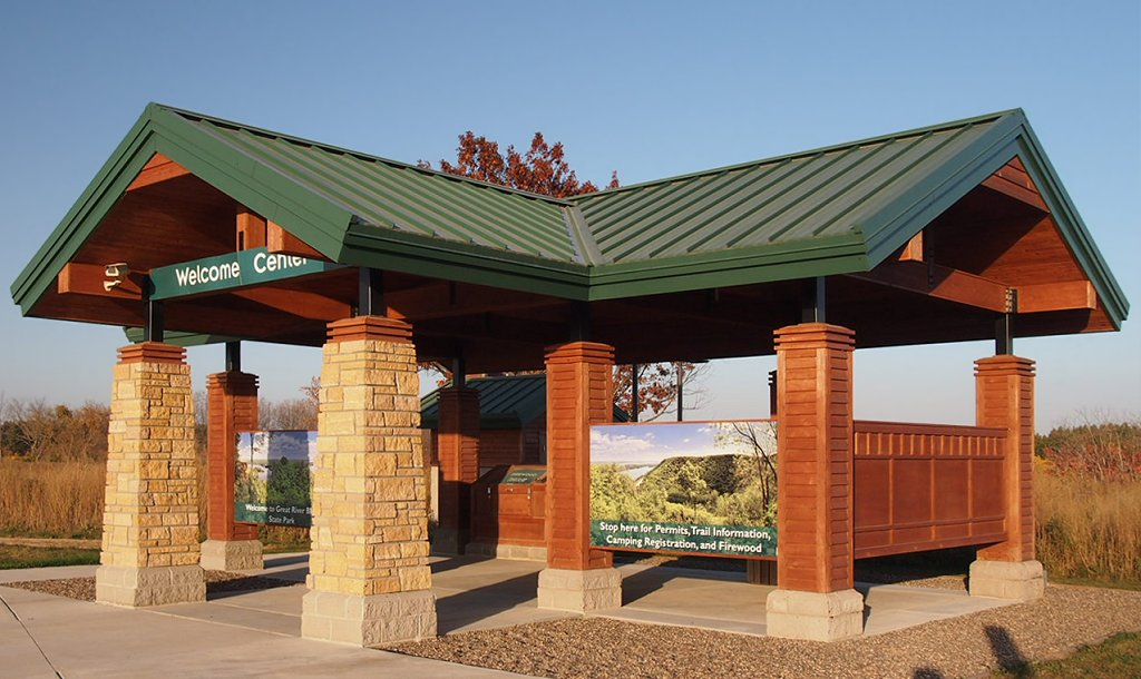 Welcome center, Great River Bluffs State Park, Minnesota, USA